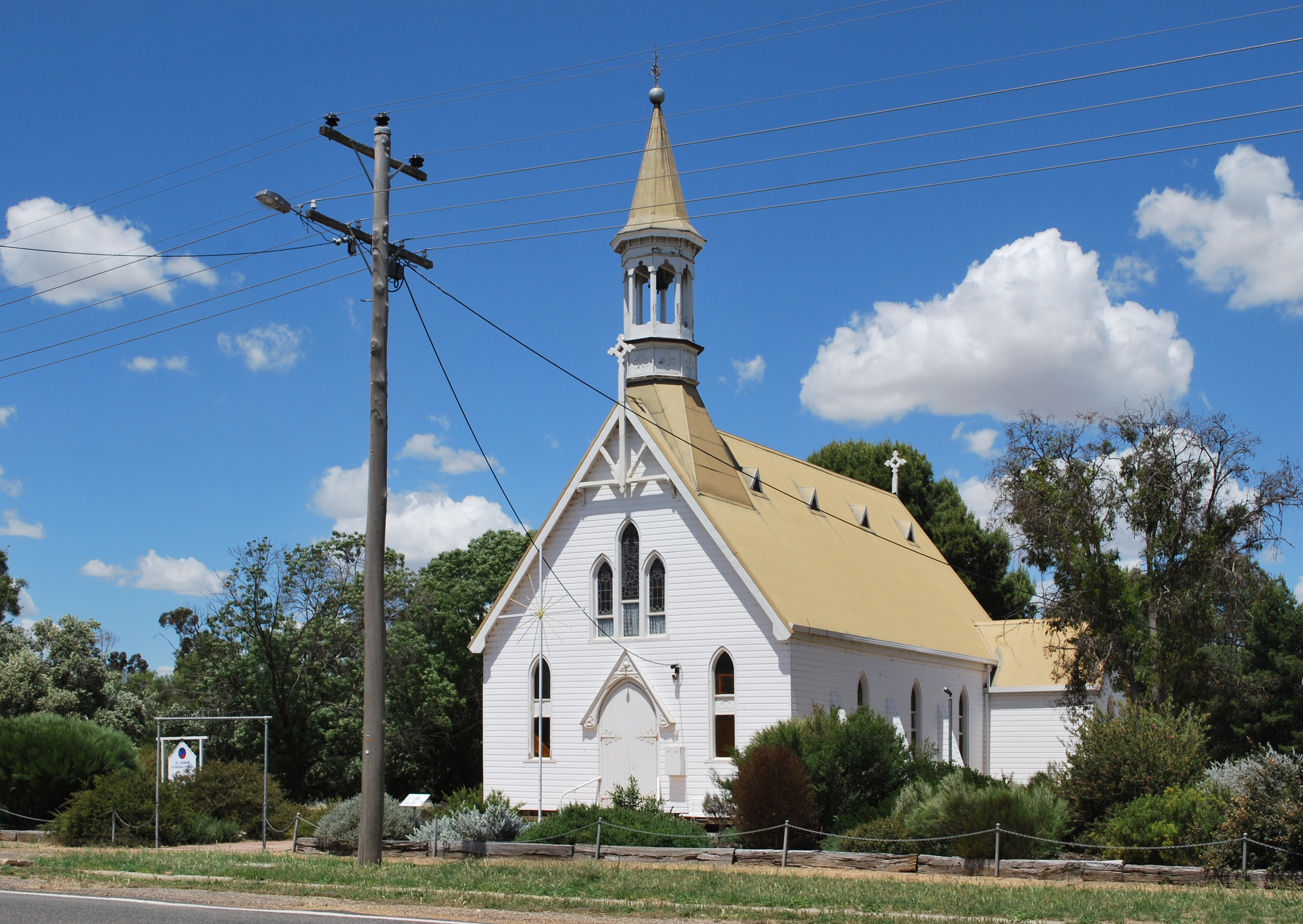 St John's Lutheran church at Minyip, Victoria. Built in 1889, it was towed 6km to its present site in 1935.